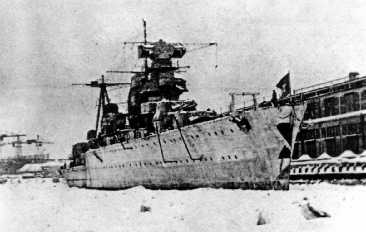 The Soviet cruiser Maksim Gor'kiy, 1941-1942.